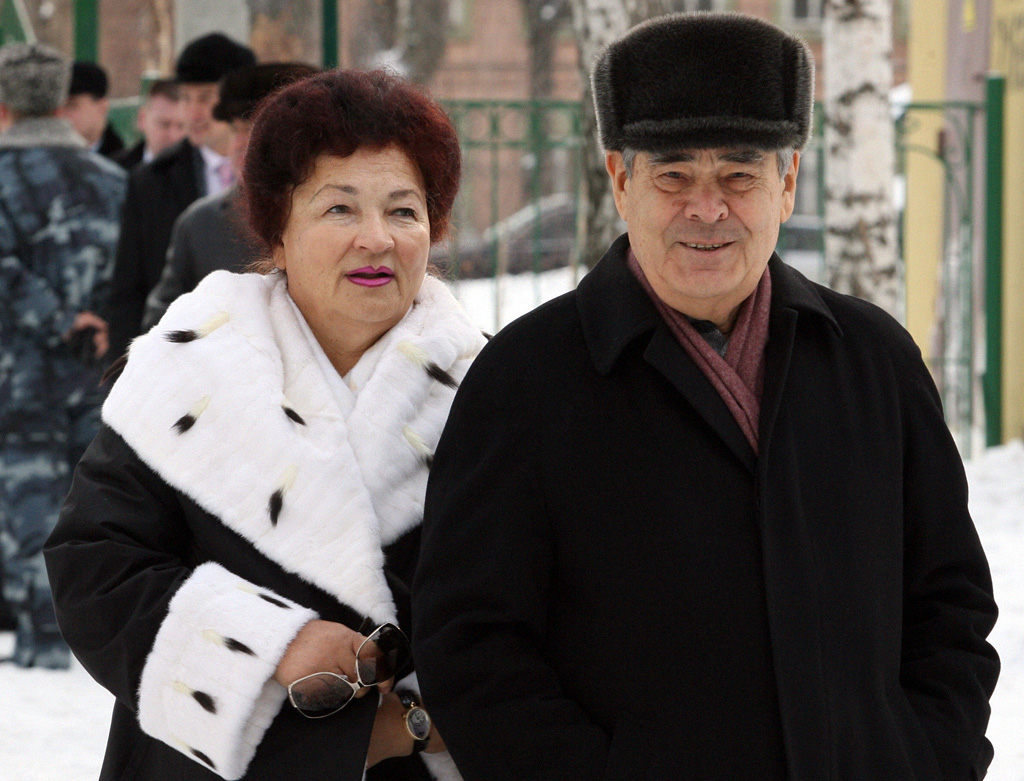 “Tatarstan' State Council election”. Tatarstan's President Mintimer Shaimiyev with his wife Sakina Shaimiyev at a polling station in Kazan on the election day. Tatarstan elects deputies of the republic's legislature - the State Council .